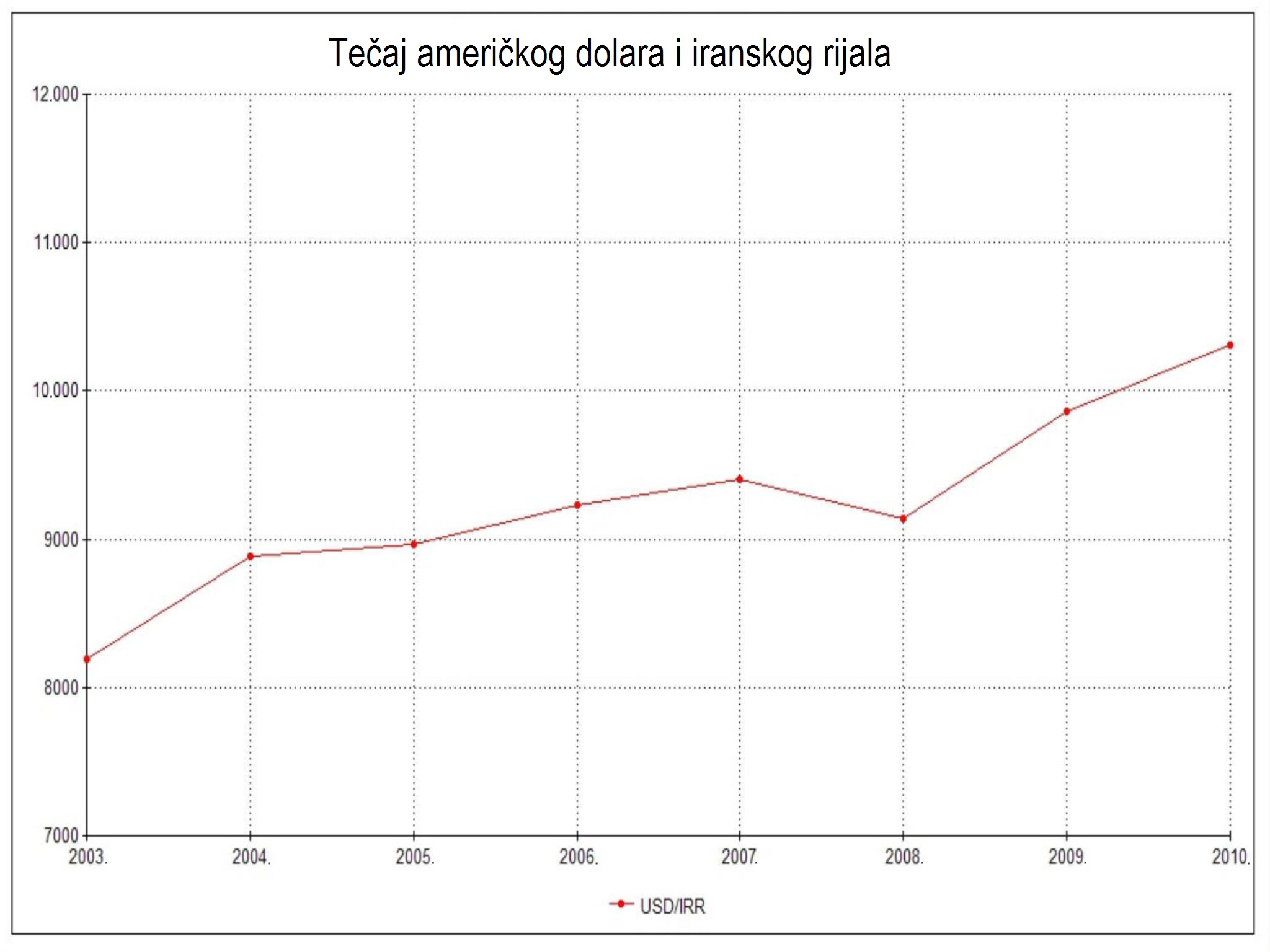 US dollar Iranian rial exchange rates